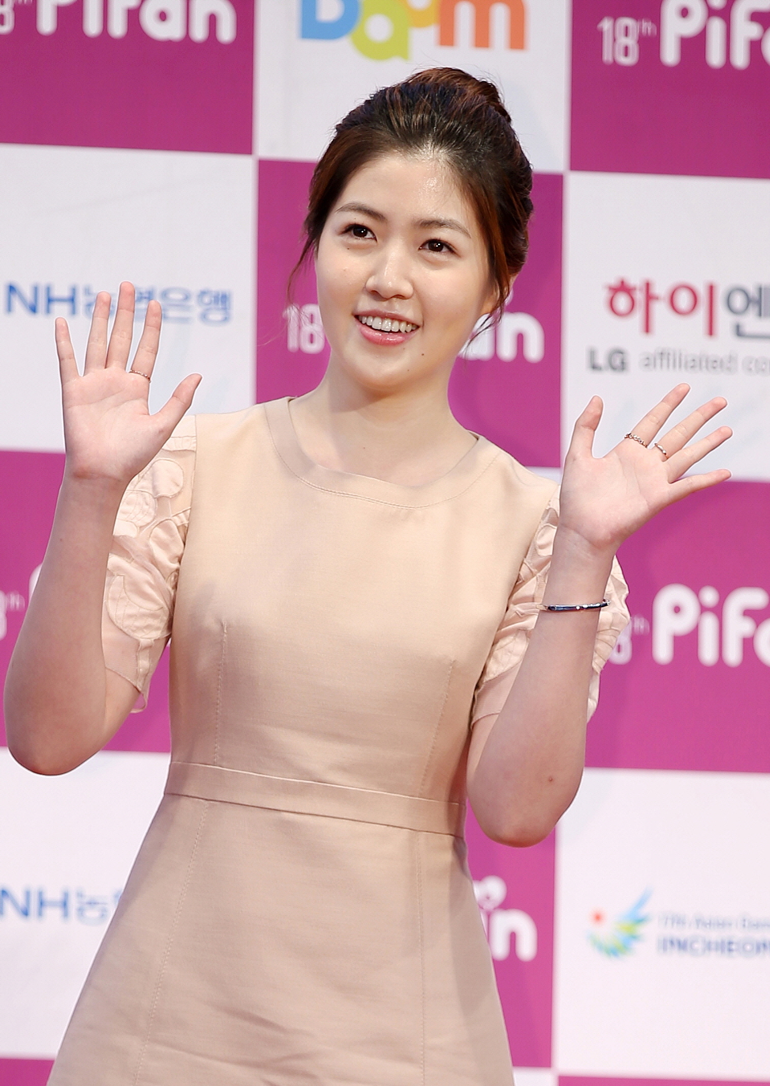 Actress Shim Eun-Kyuong poses for a photo during Pifan's opening ceremony on July 17 where she each received a Fantasia Award. July 17, 2014 Bucheon, Gyeonggi-do